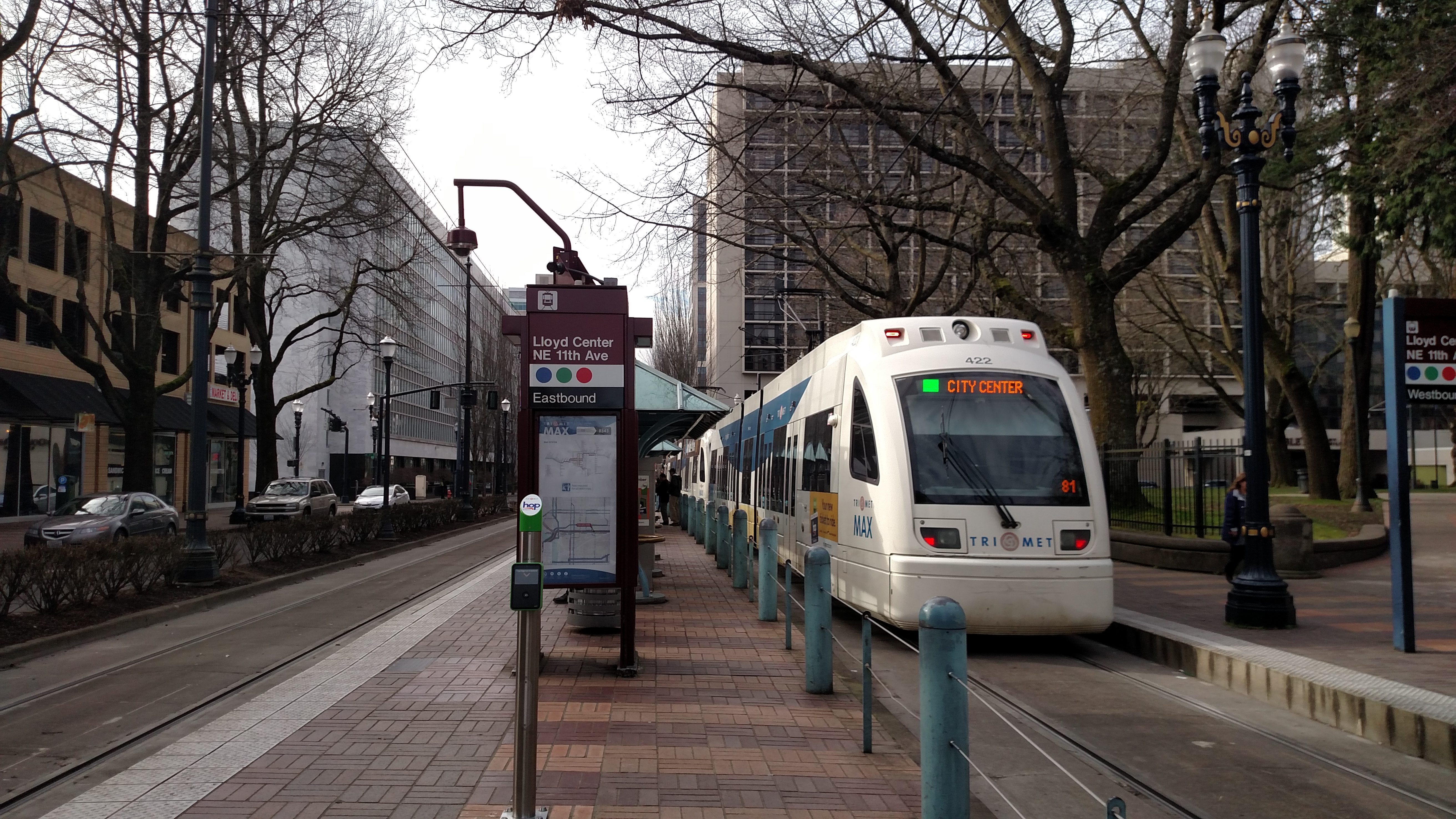 Westbound Green Line train at Lloyd Center station in February 2018